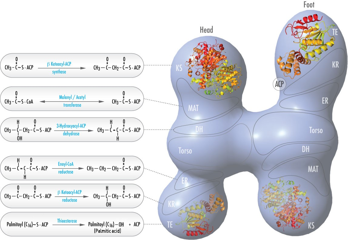 Fatty acid synthase (FAS) 'head-to-tail' model with positions of polypeptides, three catalytic domains and their corresponding reactions, designed and produced by Kosi Gramatikoff user:kosigrim.